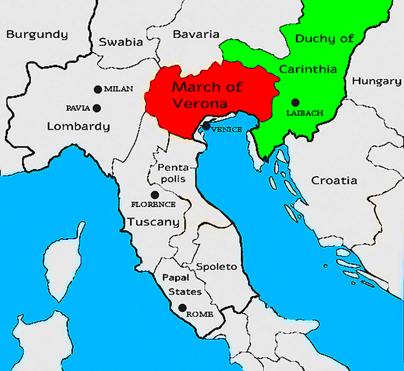 Adalbero of Eppenstein ruled as Duke of Carinthia and Margrave of Verona from 1011 or 1012 until 1035.